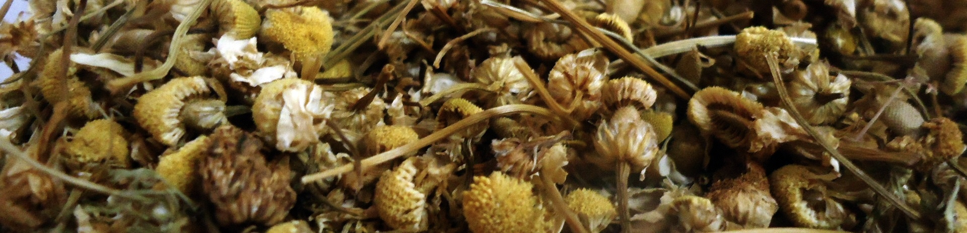 Dry matricaria chamomilla as used to make tea.